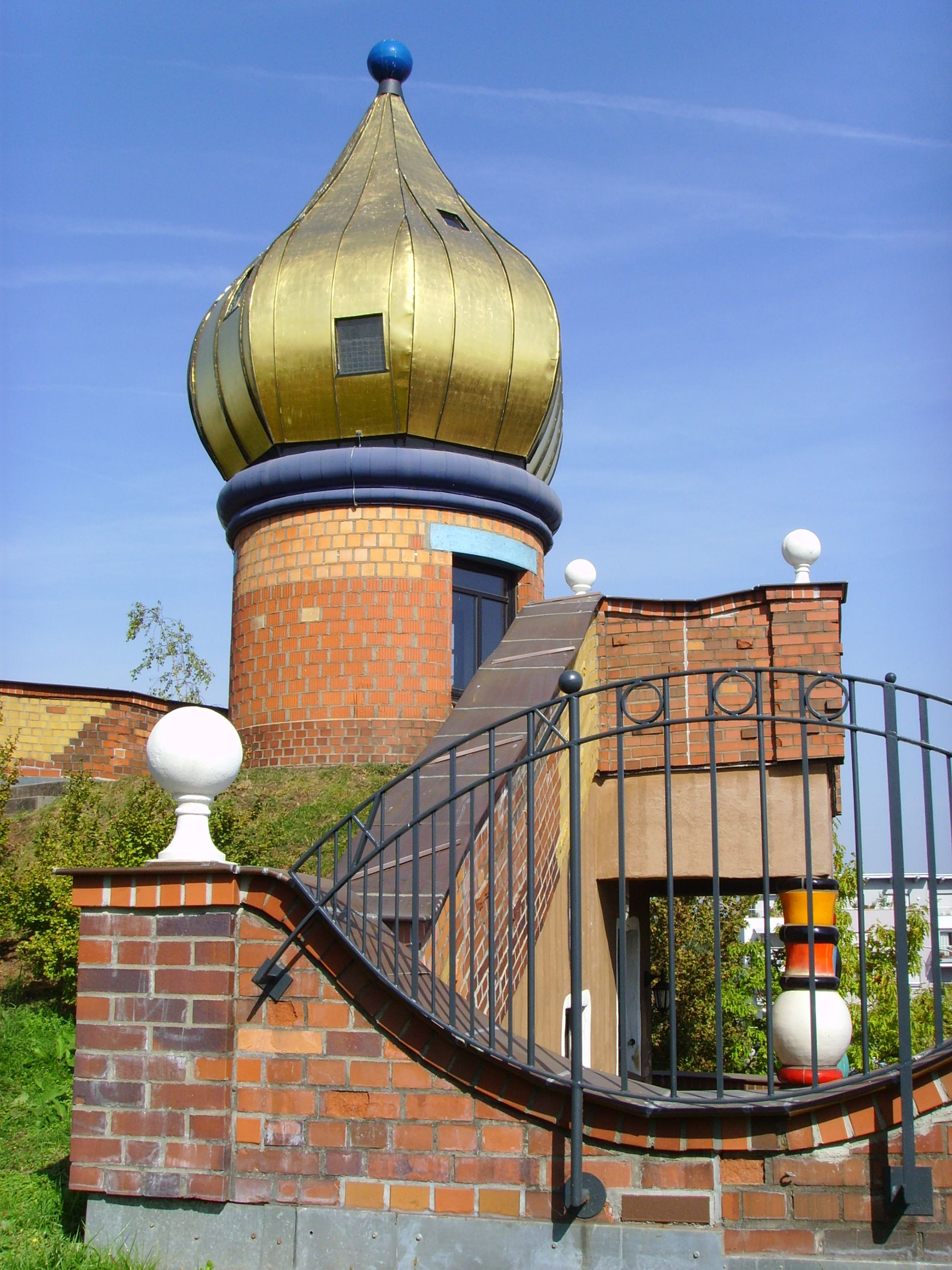 Municipal Kindergarten in Frankfurt am Main-Heddernheim, projected by Friedensreich Hundertwasser roof garden and golden spire this photo was taken by User:Gerbil from de.Wikipedia in September 2006